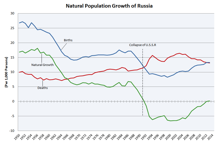 Natural population growth trends of Russia. Data source: Demoscope death rates,Demoscope birth rates, Rosstat ru